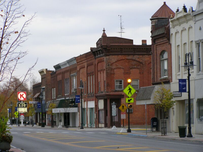 Downtown, Montpelier, Ohio (Sunday evening)